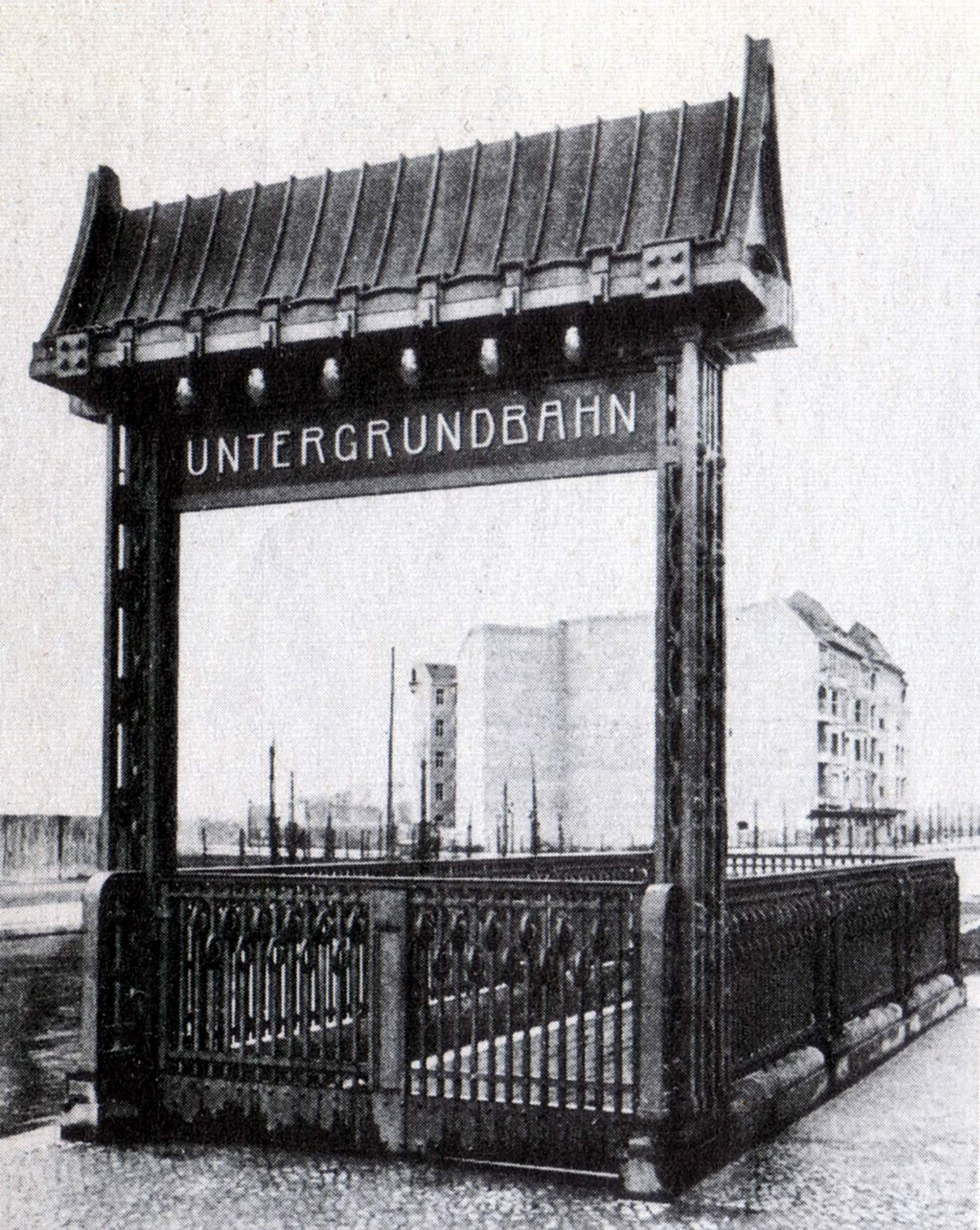 Entrance to the Berlin U-Bahn station Sophie-Charlotte-Platz